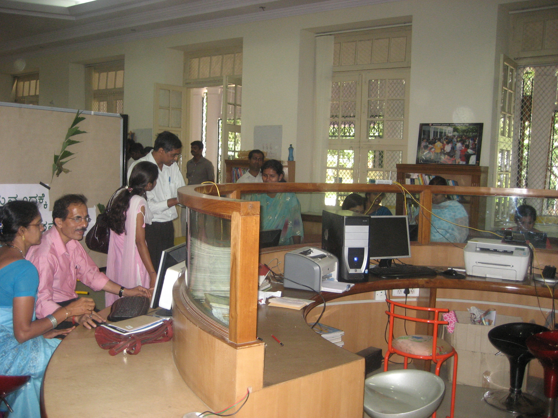 Wikipedia Lab